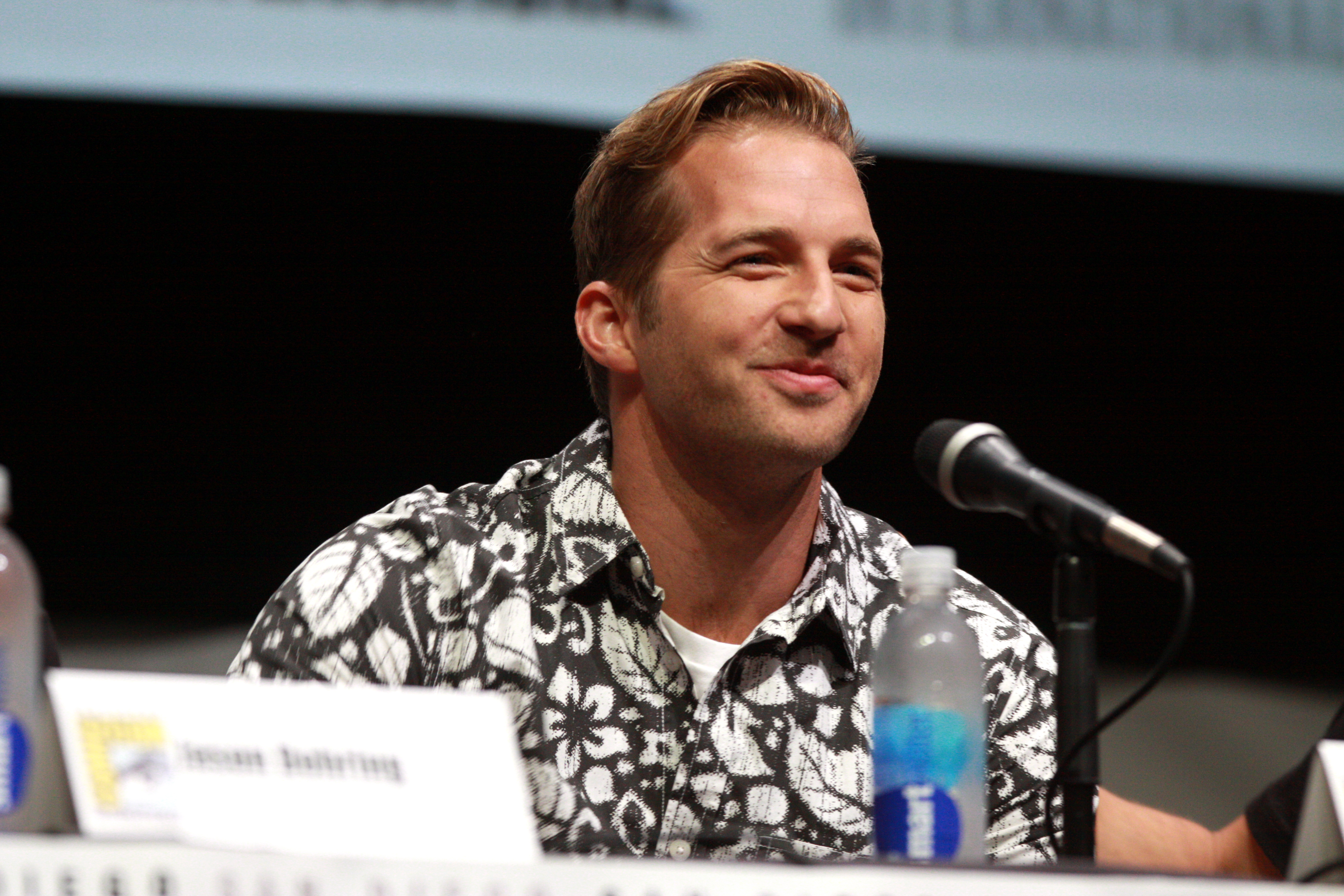 Hansen at San Diego Comic Con International in 2013